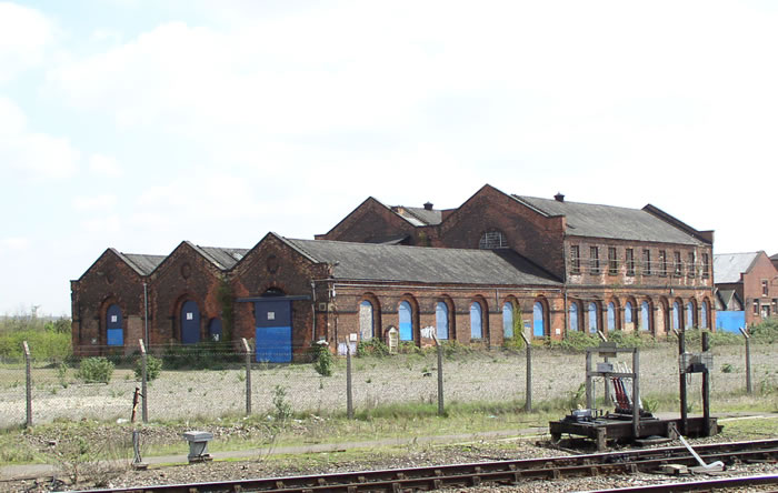 Midland Counties Railway Workshop, built 1839